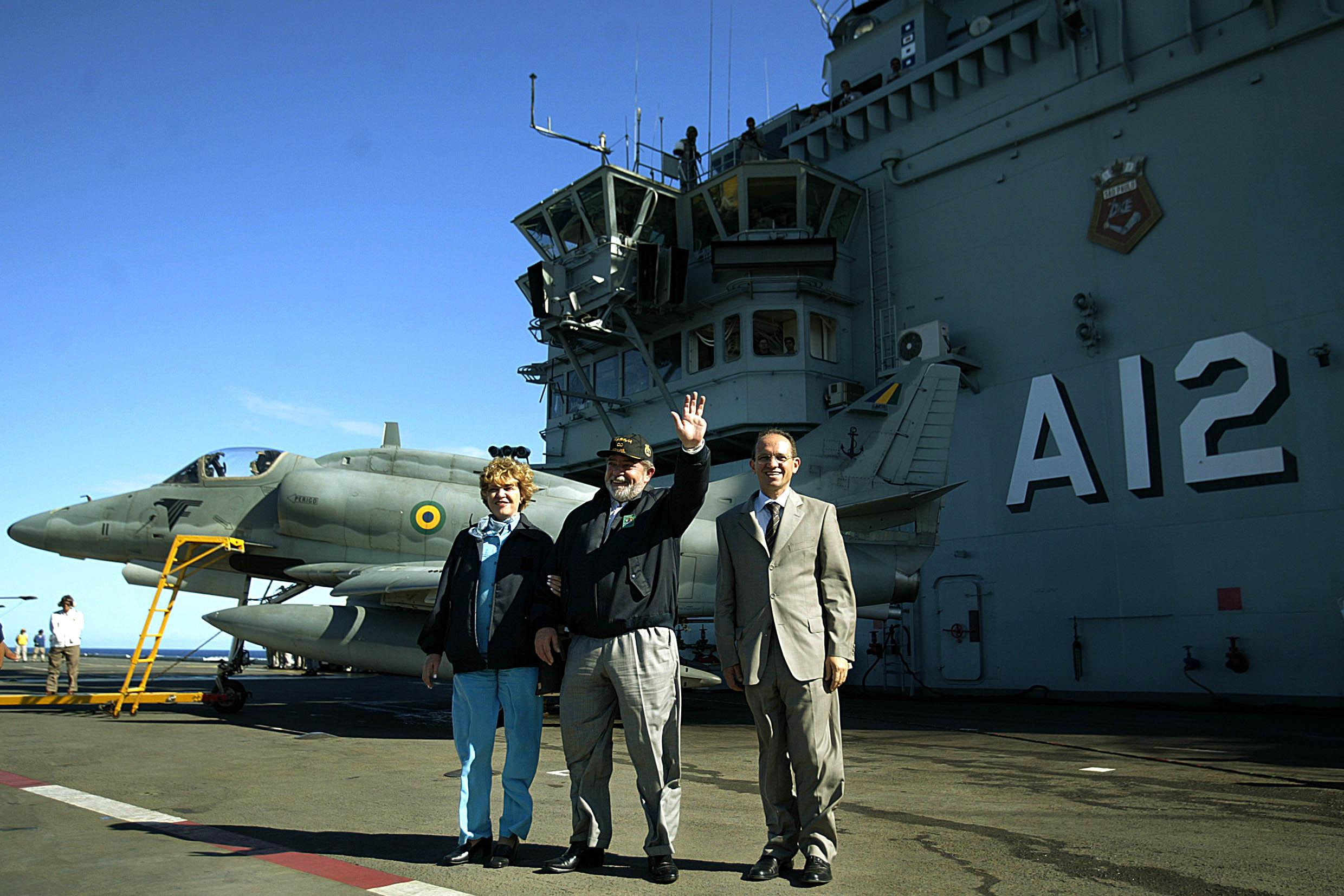 The President of Brazil, Luís Inácio Lula da Silva, with wife Marisa Letícia Rocco Casa, and the governor of the state of Espírito Santo, Paulo Hartung, abord the brazilian navy's aircraft carrier NAe São Paulo.